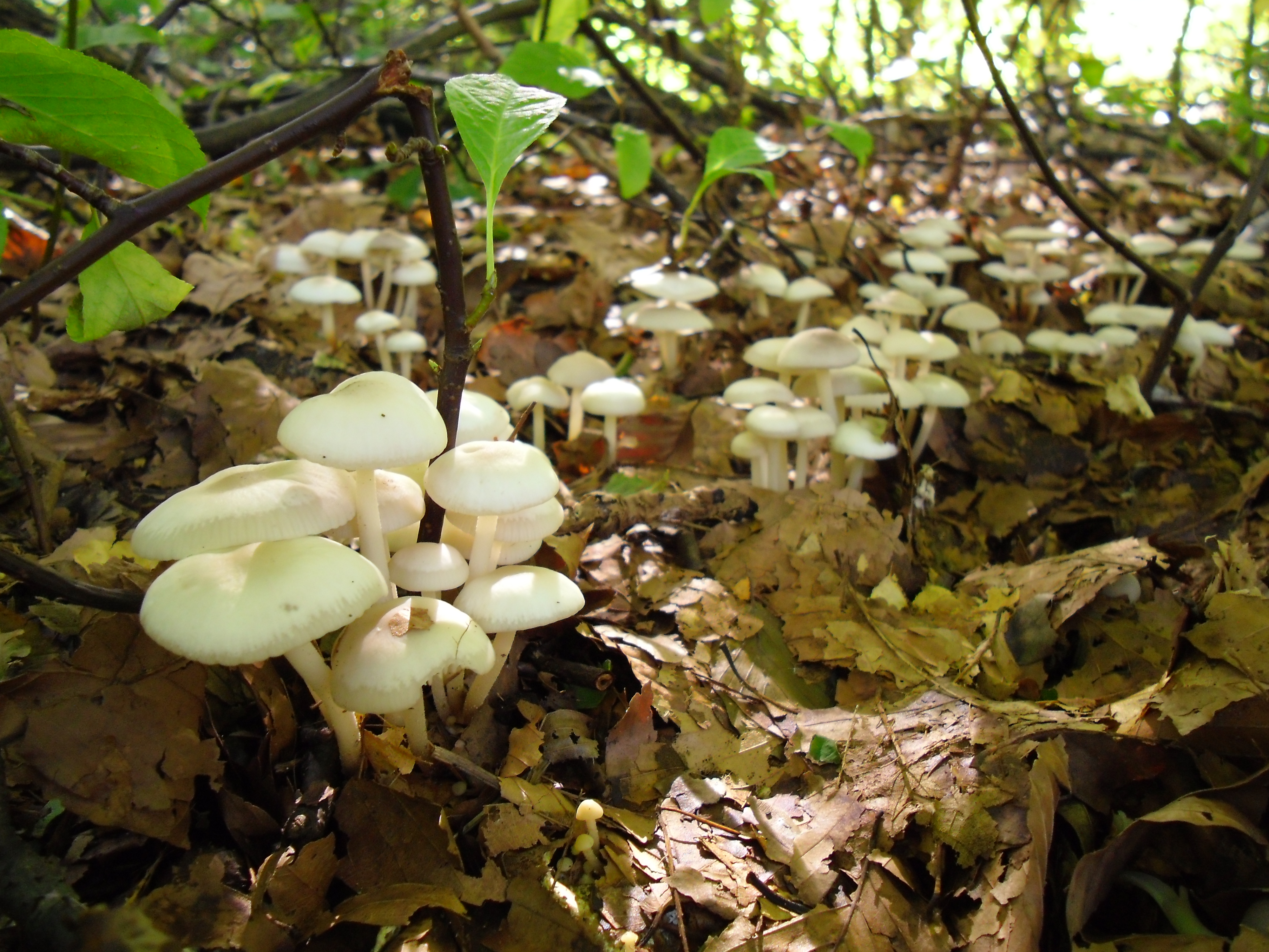 Marasmius wynneae Berk. & Broome Image location: Haagse Bos, Den Haag, Zuid-Holland, Netherlands Recognized by sight: Confirmed by Nico Dam For more information about this, see the observation page at Mushroom Observer.